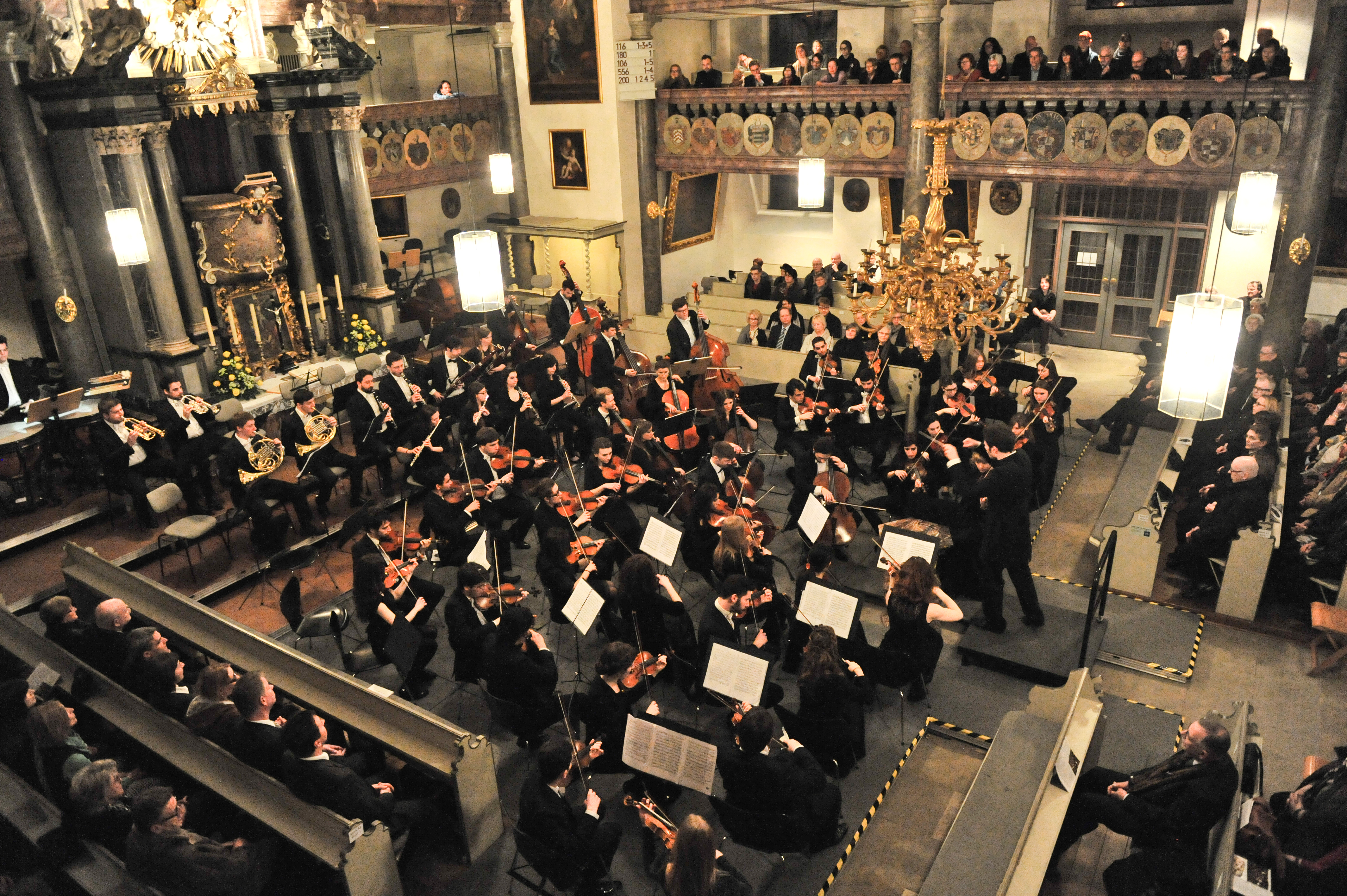 Foto: G. Büchner